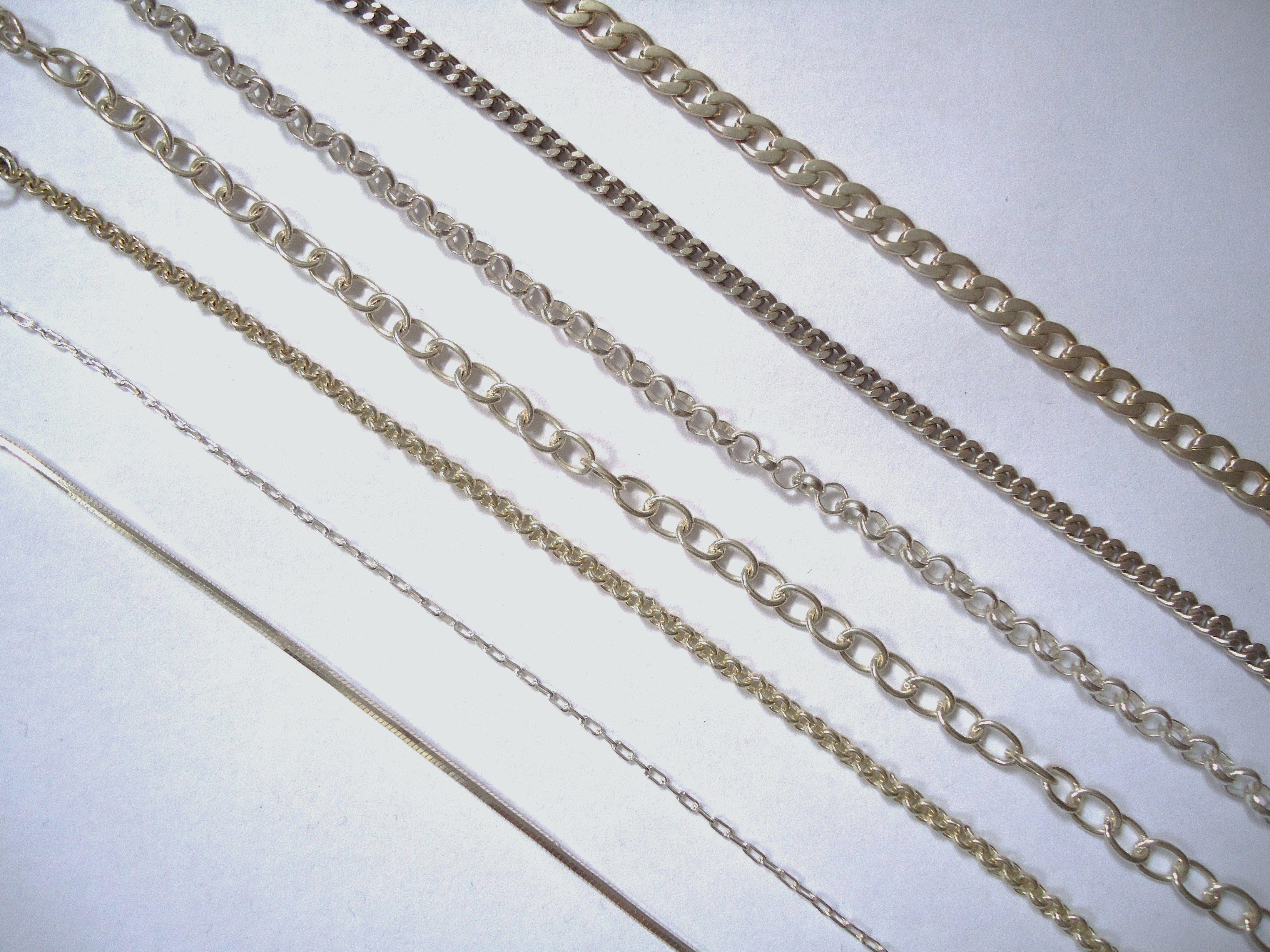 925-Silver chains. Photo : Mauro Cateb, Brazilian jeweler.